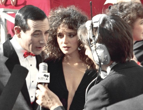 Pee Wee Herman on the red carpet at the 60th Annual Academy Awards, 4/11/88